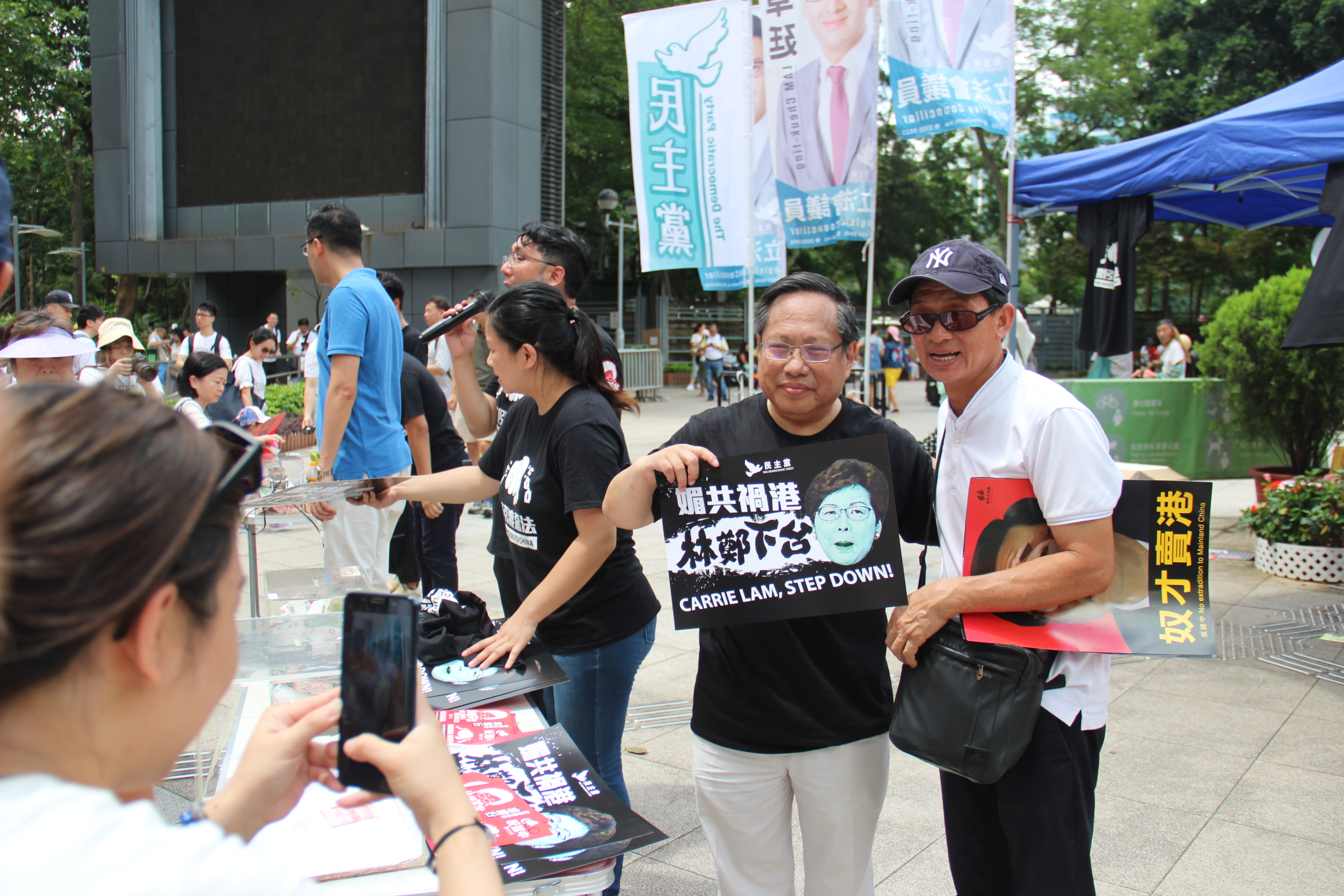 Albert Ho (何俊仁), solicitor and politician, current chairman of the Hong Kong Alliance in Support of Patriotic Democratic Movements in China, took part in 2019 Hong Kong anti-extradition bill protests on on June 9, 2019. Controversial extradition bill was proposed by Hong Kong Government as if for extradition of a suspect in Taiwan. However, the Hong Kong government has extended the scope in this bill of relevant countries and regions for extradition, including mainland China. The protesters believe if Hong Kong people had been extradited to the mainland China, their judicial rights would not be guaranteed.